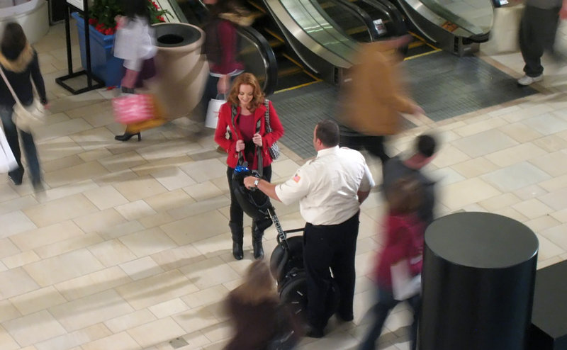 Jayma Mays at set of Mall Cops with Kevin James, Burlington Mall, MA